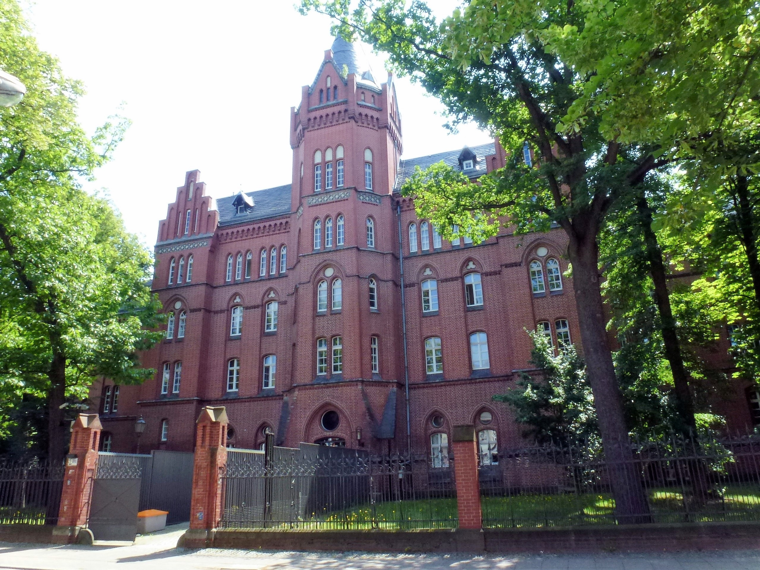 Berlin-Lichterfelde Gardeschützenweg Gardeschützen-Kaserne